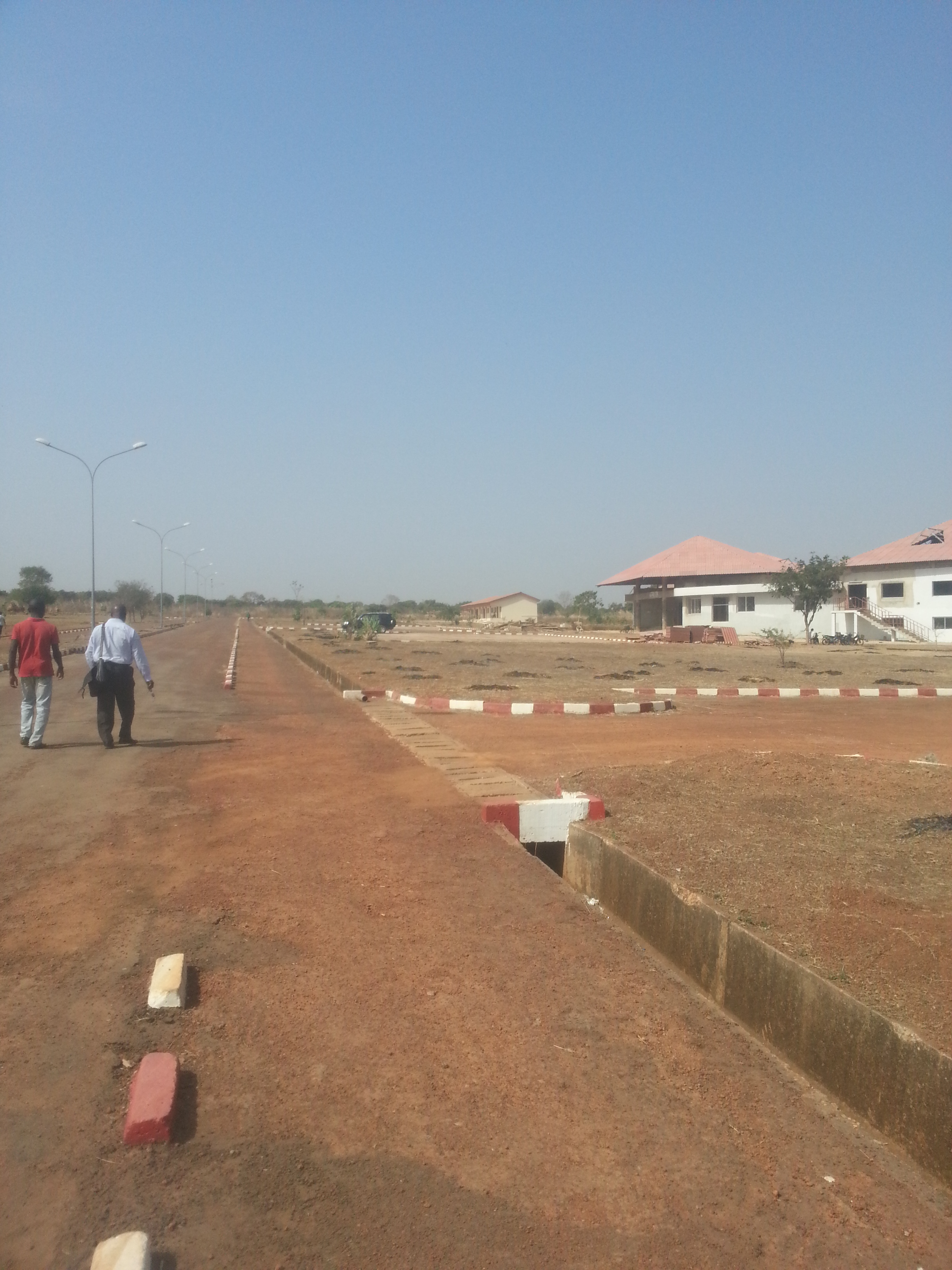 Peleforo Gon Coulibaly University